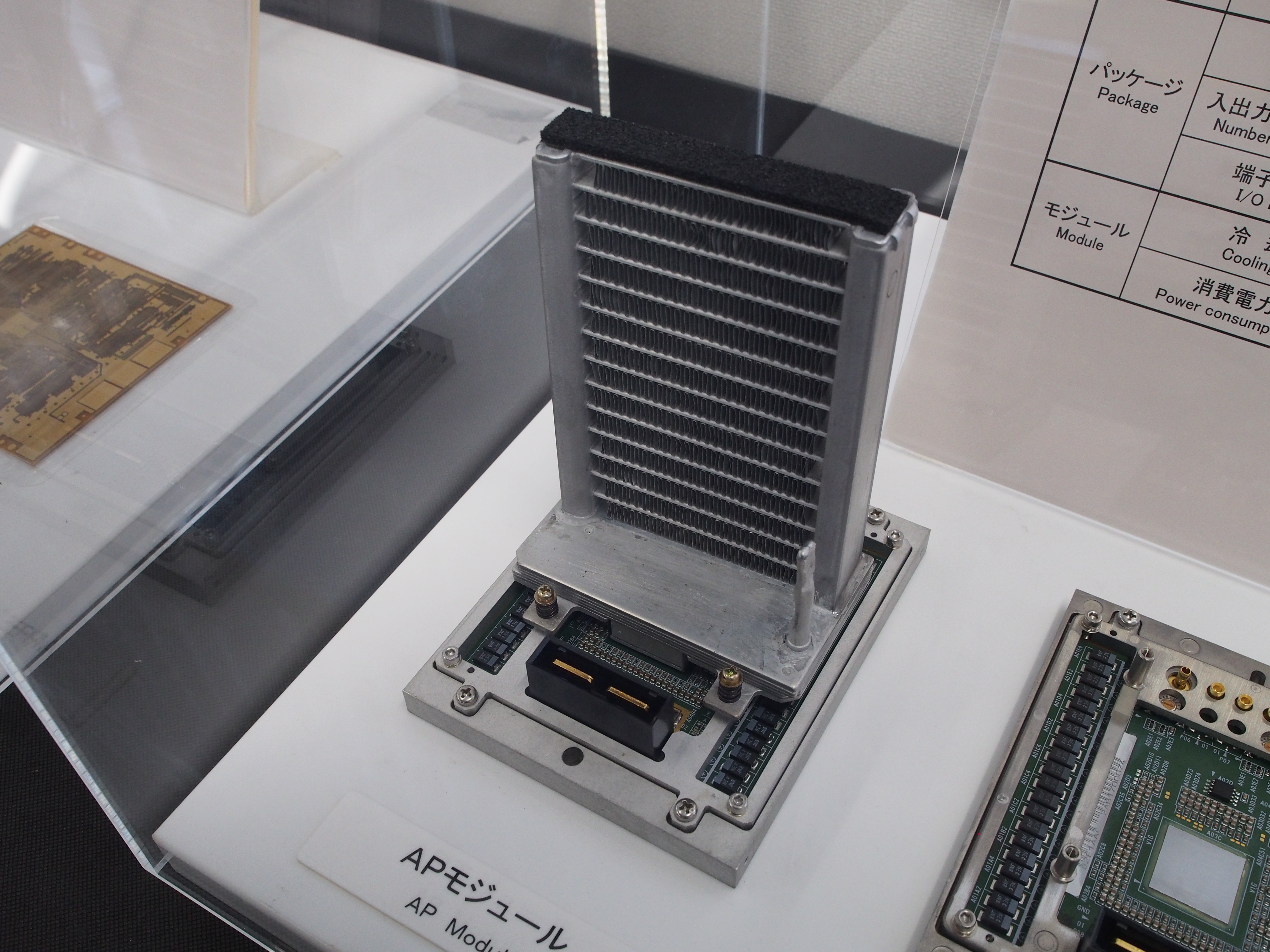 Arithmetic processing (AP) module of Earth Simulator. Photographed on the open house day of JAMSTEC Yokohama Institute for Earth Sciences.